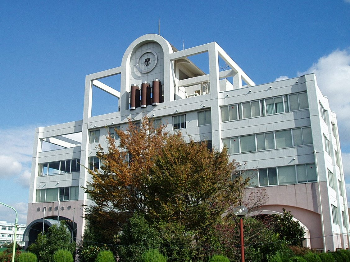 The Bldg. #1 of Kawaguchi Junior College located in Kawaguchi, Saitama Pref., Japan.